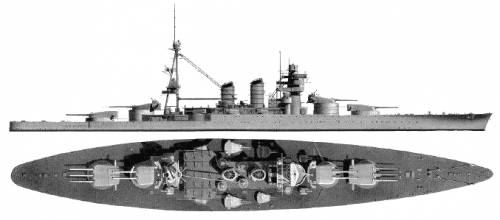 Office of Naval Intelligence drawing of the Conti di Cavour-class Battleship